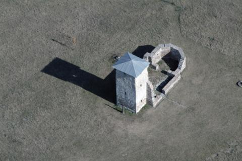 Soltszentimre, Hungary, aerialphotography.